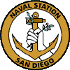 Naval Station San Diego logo